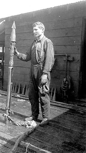 On verso of image: Alaska-Whaling In Folder 120 Subjects (LCTGM): Harpoons--Alaska Subjects (LCSH): Whalers(Persons)--Alaska; Whaling--Alaska